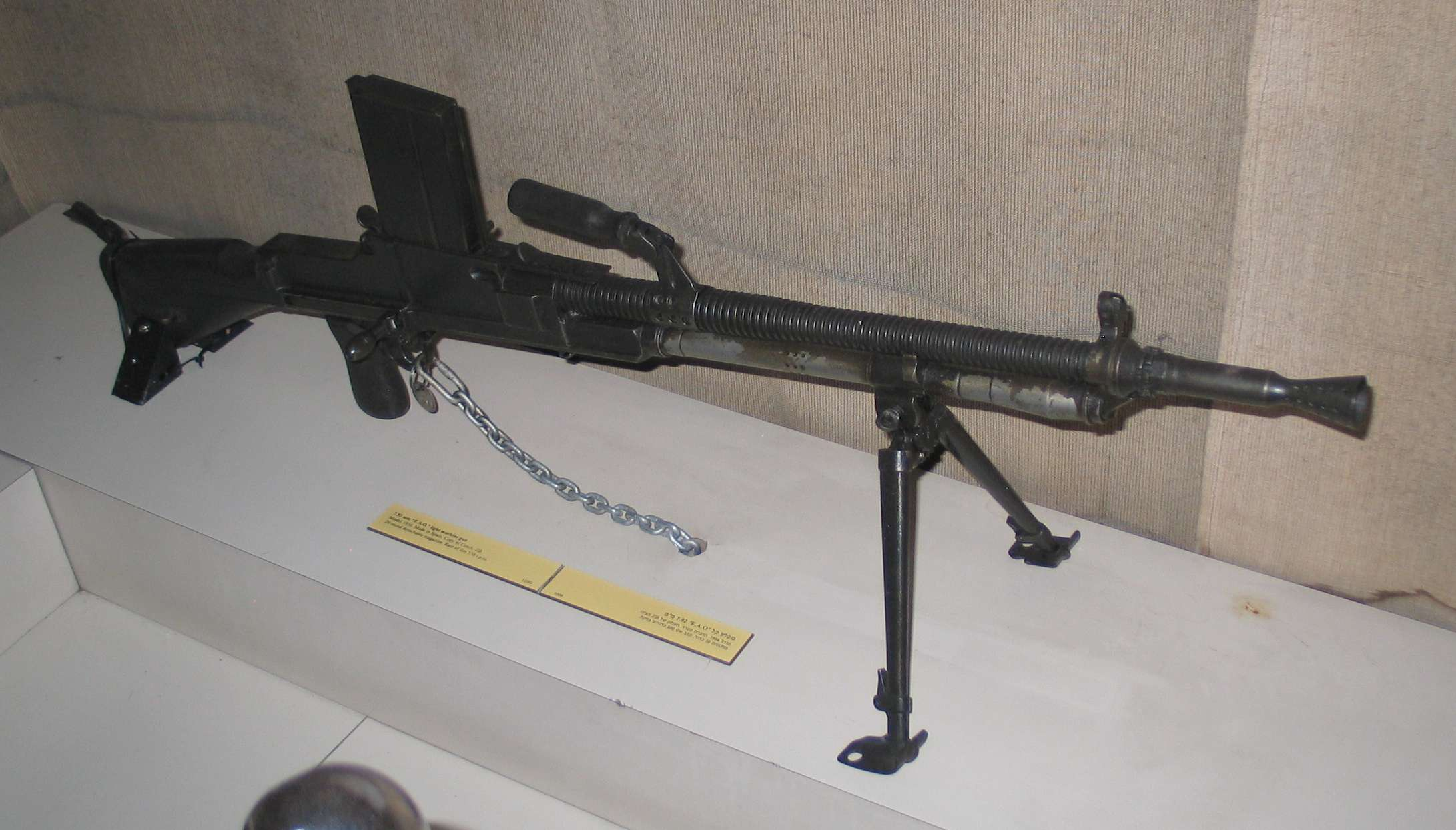 Batey ha-Osef museum, Tel Aviv, Israel. Fusil Automatico Oviedo (F.A.O.) machine gun (a clone of ZB vz. 26).